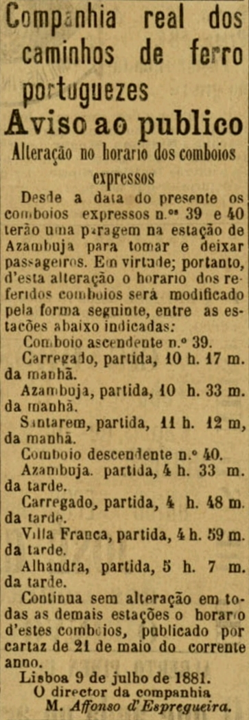 Public announcement of the Companhia Real dos Caminhos de Ferro Portugueses (Royal Company of the Portuguese Railways), informing about a change in the schedule of the express trains 39 and 40, that started to serve the Azambuja train station. This image was published on the Diario Illustrado newspaper No. 2938, of 18th July 1881, and scanned by the Biblioteca Nacional de Portugal.